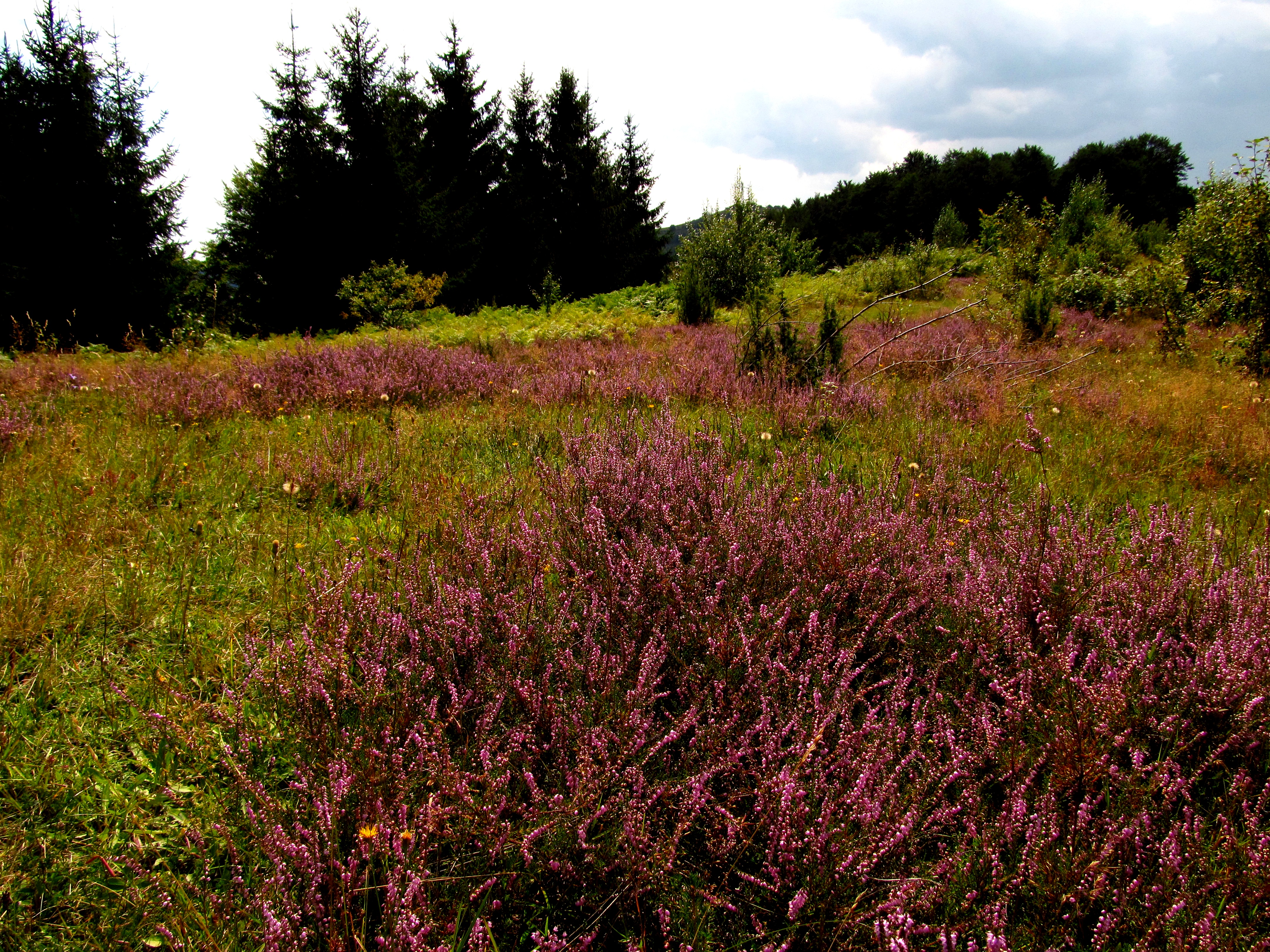 Calluna vulgaris